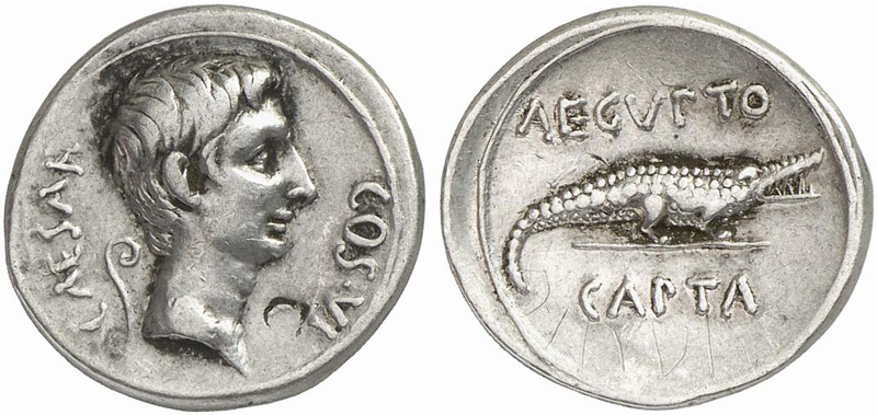 Augustus. 27 BC-AD 14 Denarius (Silver, 3.83 g 1), Brundisium or Rome, circa 29-27 BC. CAESAR COS VI Bare head of Octavian to right; behind, lituus; before, banker’s mark. AEGVPTO CAPTA Crocodile at bay to right, mouth open; below in field, uncertain graffiti . BMC 650 (Rome). BN 905. Cohen 2. CRI 430. RIC 275a. Rare. Minor graffiti in reverse field, otherwise, nicely centered and, good very fine.